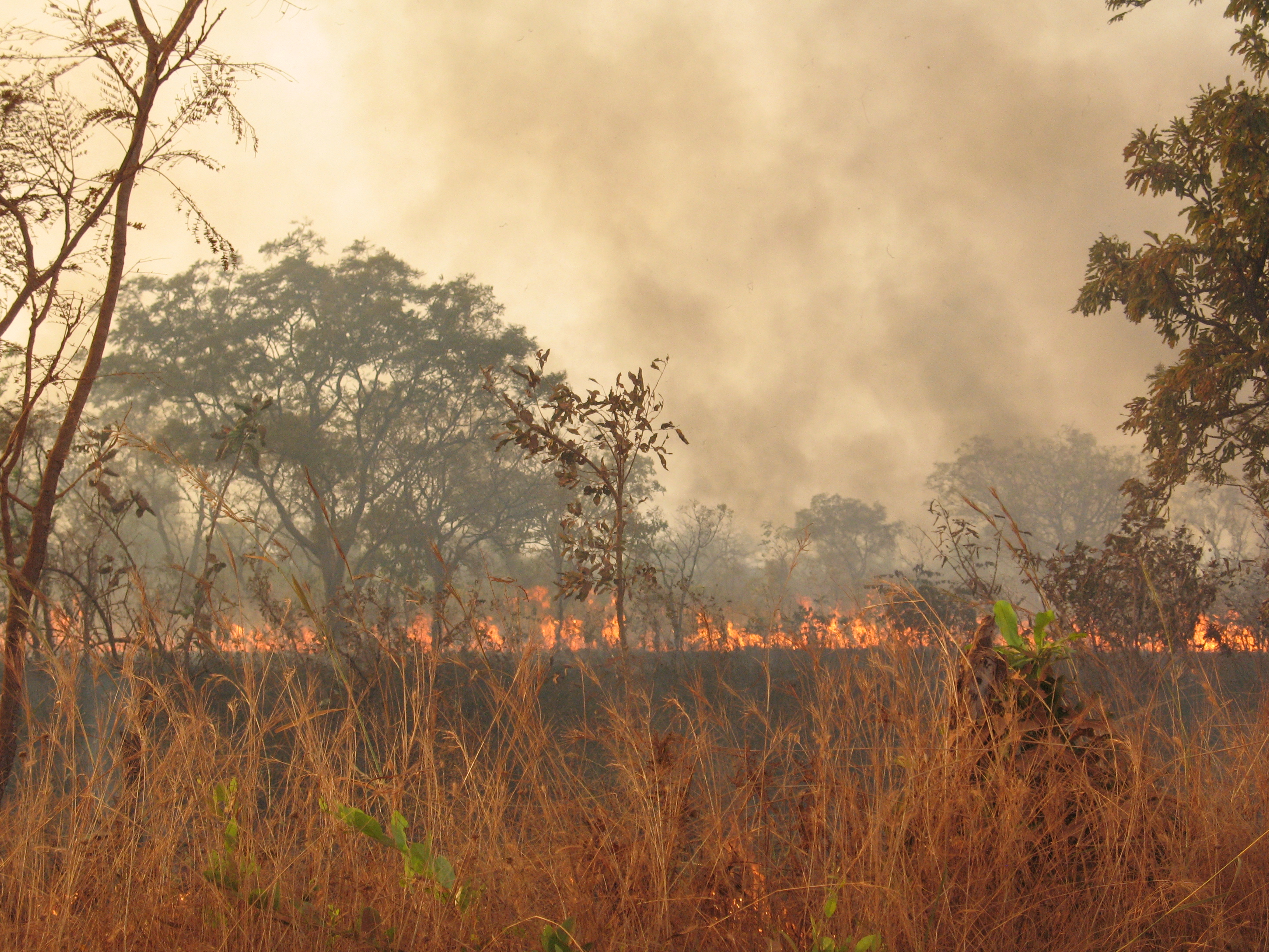 Bush fire on Bimbila-Yendi road, Northern Region, Ghana